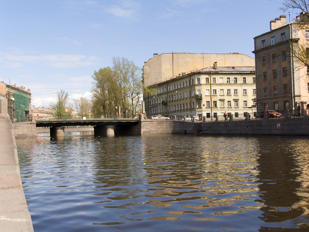 Alarchin Bridge over Griboedov Canal in S.-Petersburg